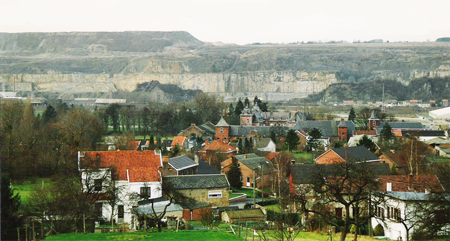 Panorama of Hermalle-sous-Huy, Belgium. Taken from the road that goes to Aux Houx. On the horizon, the limestone quarries ; in central the towers of the castle.